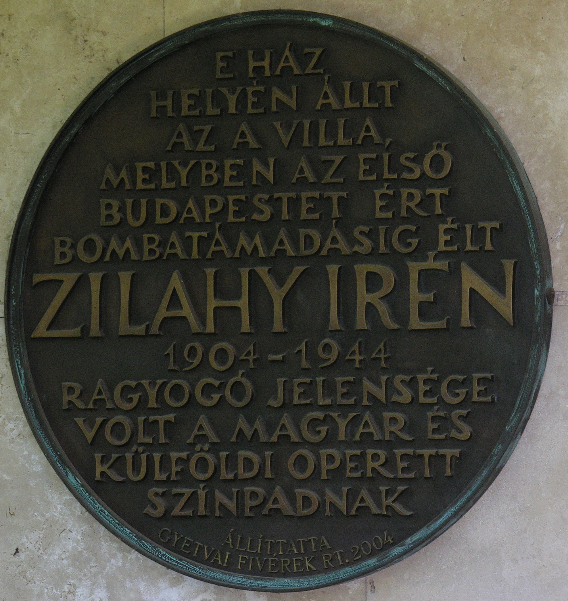 Commemorative plaque of Irén Zilahy in Budapest District XI, Himfy Street No 5